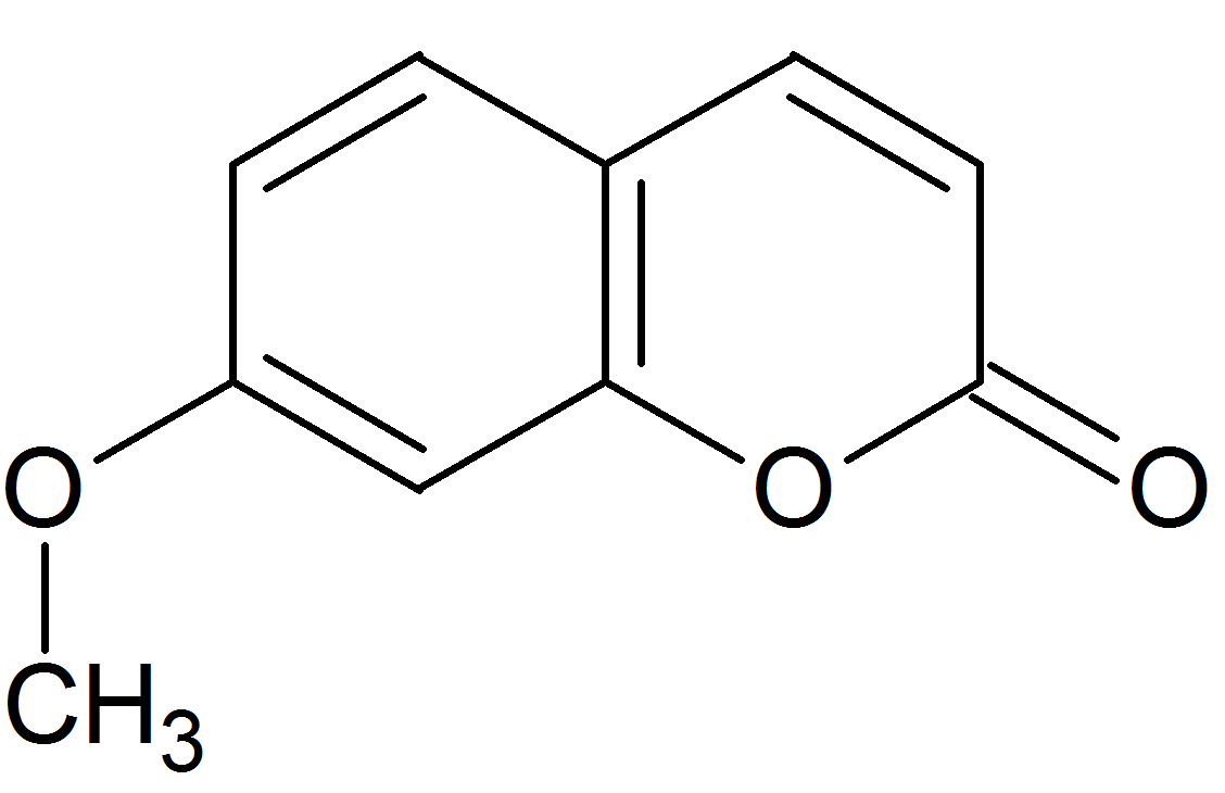 Herniarin